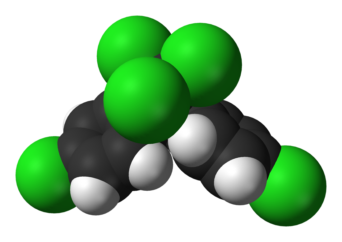 Space-filling model of the DDT molecule, C14H9Cl5, as found in the crystal structure. X-ray diffraction data from J. Chem. Soc. Perkin Trans. 2 (1972) 2148-2153. Model constructed in CrystalMaker 8.1. Image generated in Accelrys DS Visualizer.